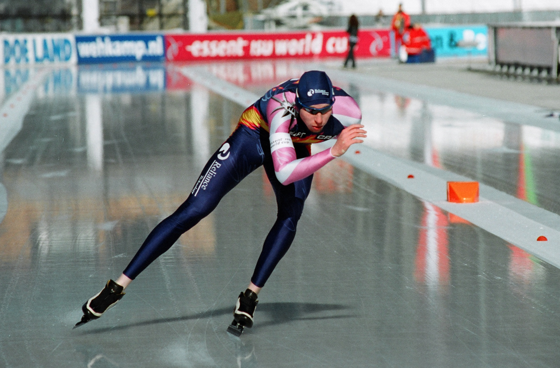 Vadim Sajoetin is a fromer speedskater from Russia